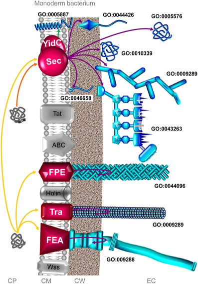 The complement of the secretome involved in colonization process in monoderm bacteria.